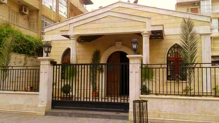 National Presbyterian Church of Aleppo, the new church.